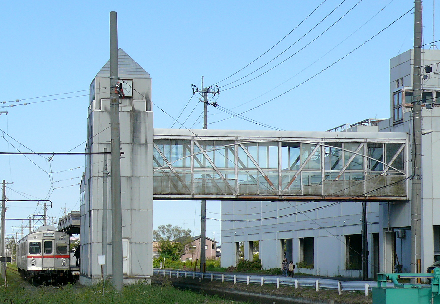 Towada Kanko Electric Railway Towadashi Station Premises. (Japan Aomori of Towada City).